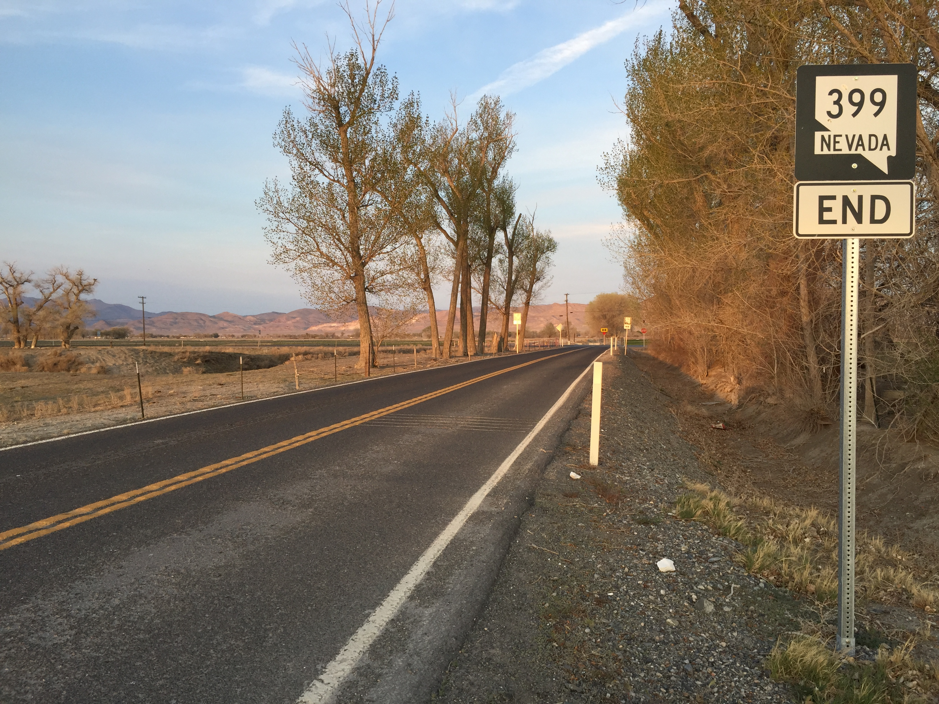 View east at the east end of Nevada State Route 399 in Pershing County, Nevada